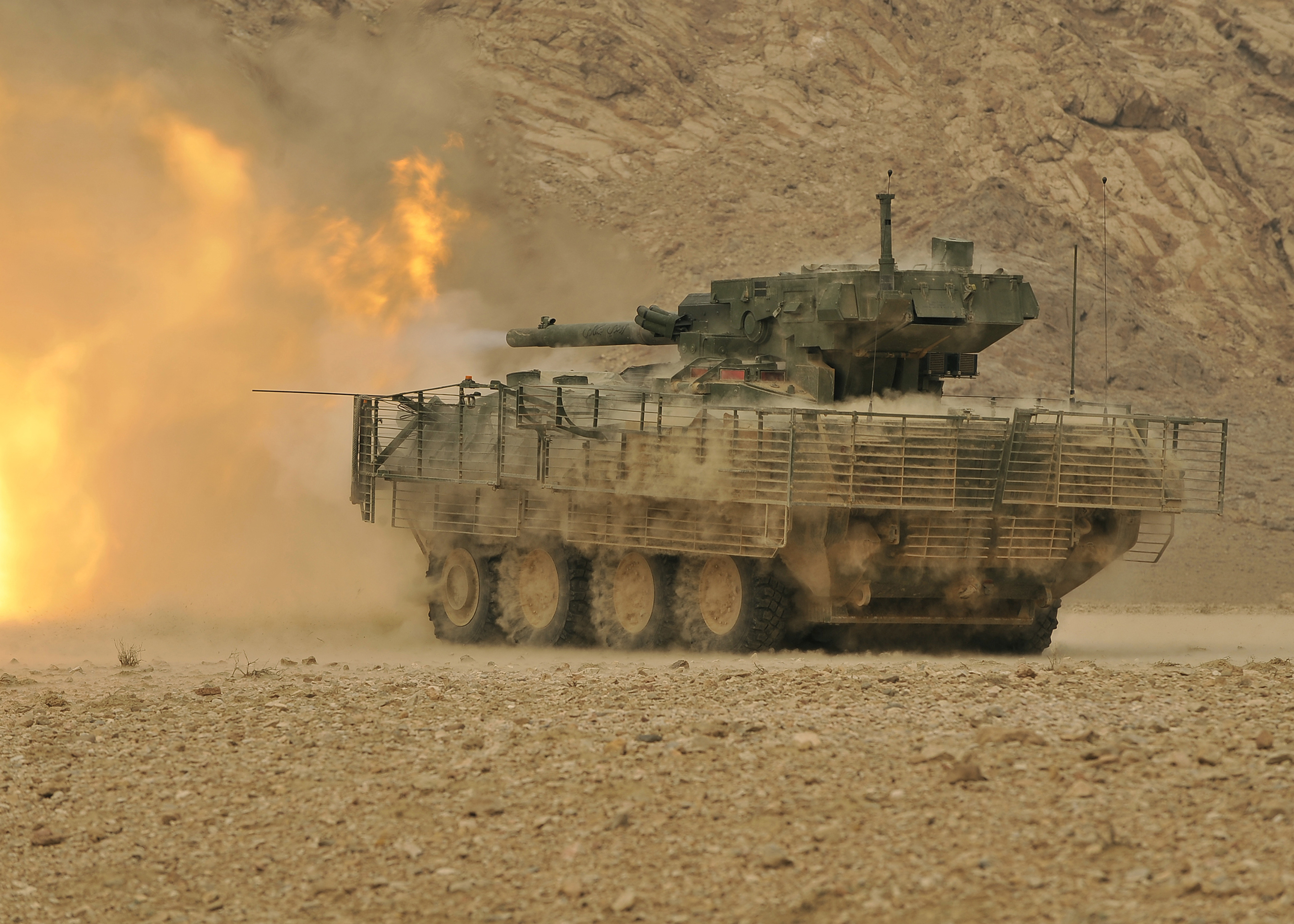 U.S. Soldiers from 2nd Battalion, 1st Infantry Regiment, 5th Stryker Brigade Combat Team, 2nd Infantry Division test fire the M1128 Stryker Mobile Gun System in Hutal, Afghanistan, Jan. 21, 2010.